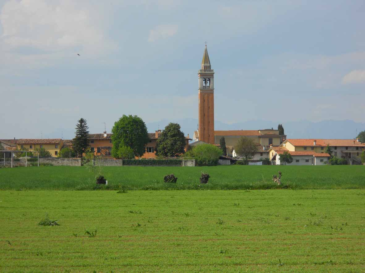 S.Maria_la_Longa_campanile_e_villa_dei_Canonici_di_Aquileia